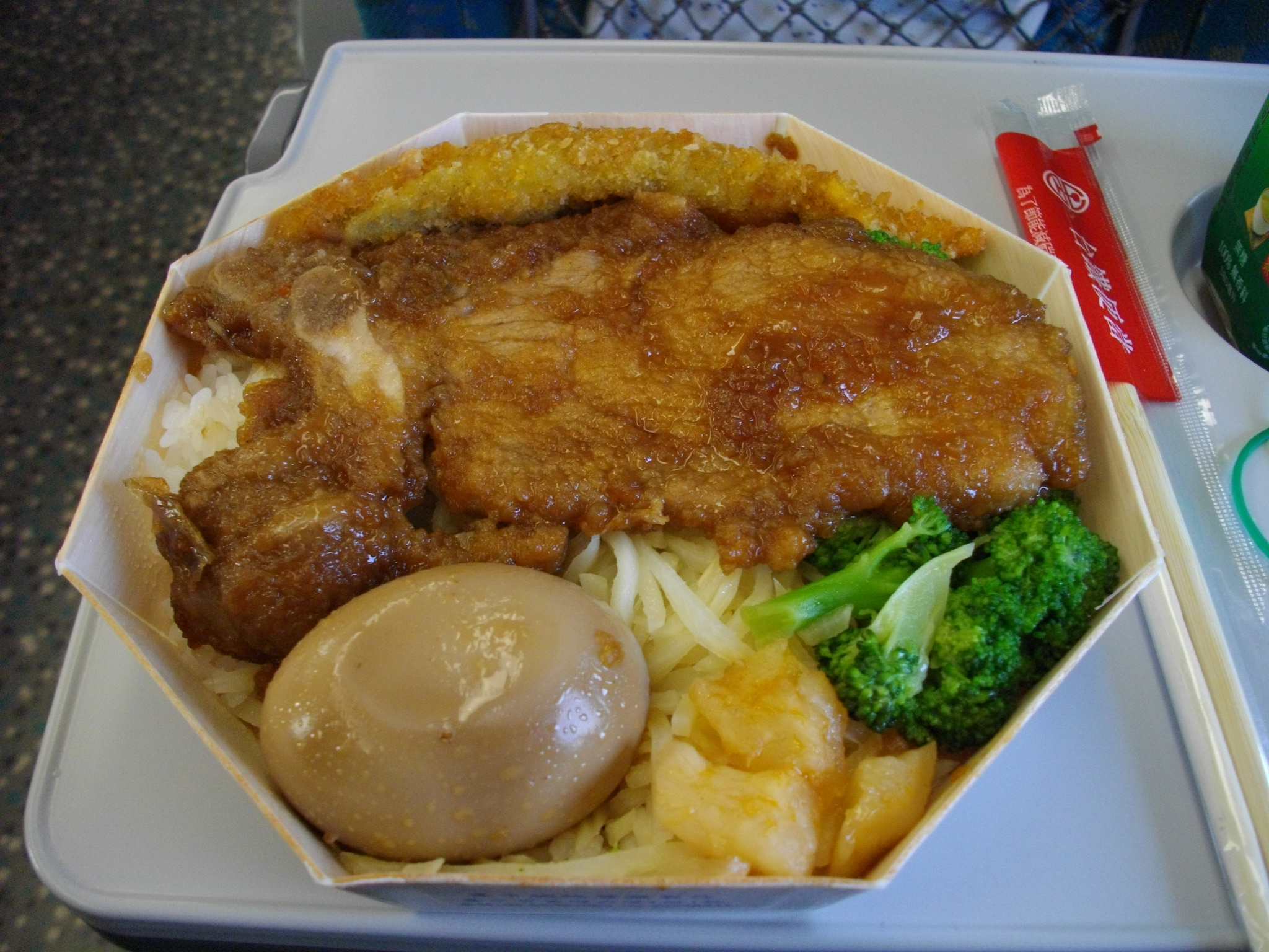 TRA Pork Ribs Rice Bento (Taichung)